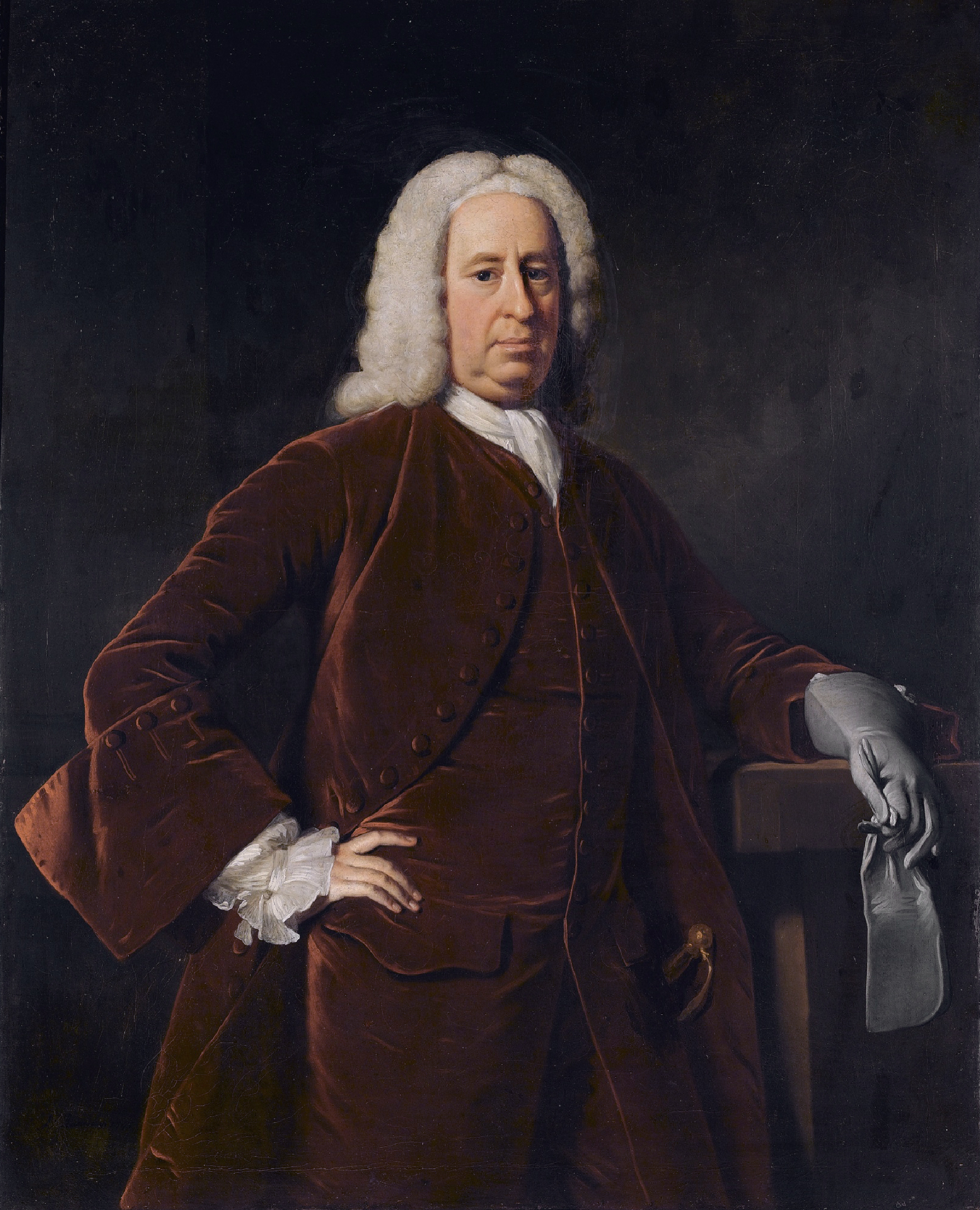 John Fitzgerald Villiers, 1st Earl of Grandison (1692-1766) oil on canvas 127 x 101.5 cm signed and dated, l.l. A. Ramsay 1743